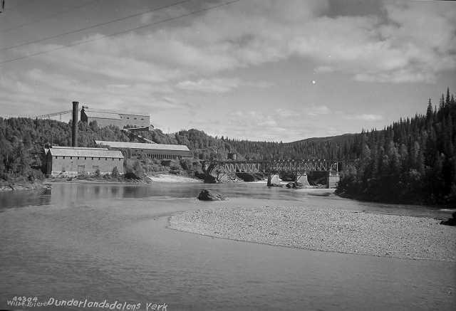 Dunderland Iron Ore Company at Storforshei, Norway. Includes the Dunderland Line.